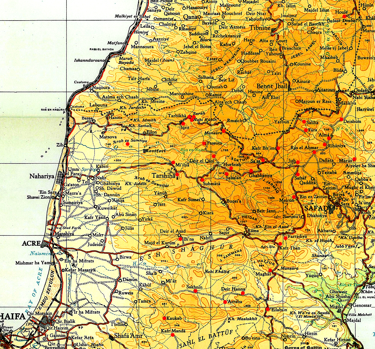 Palestinian villages captured doring Operation Hiram 29th October to 2nd November 1948. Grib = 10km.